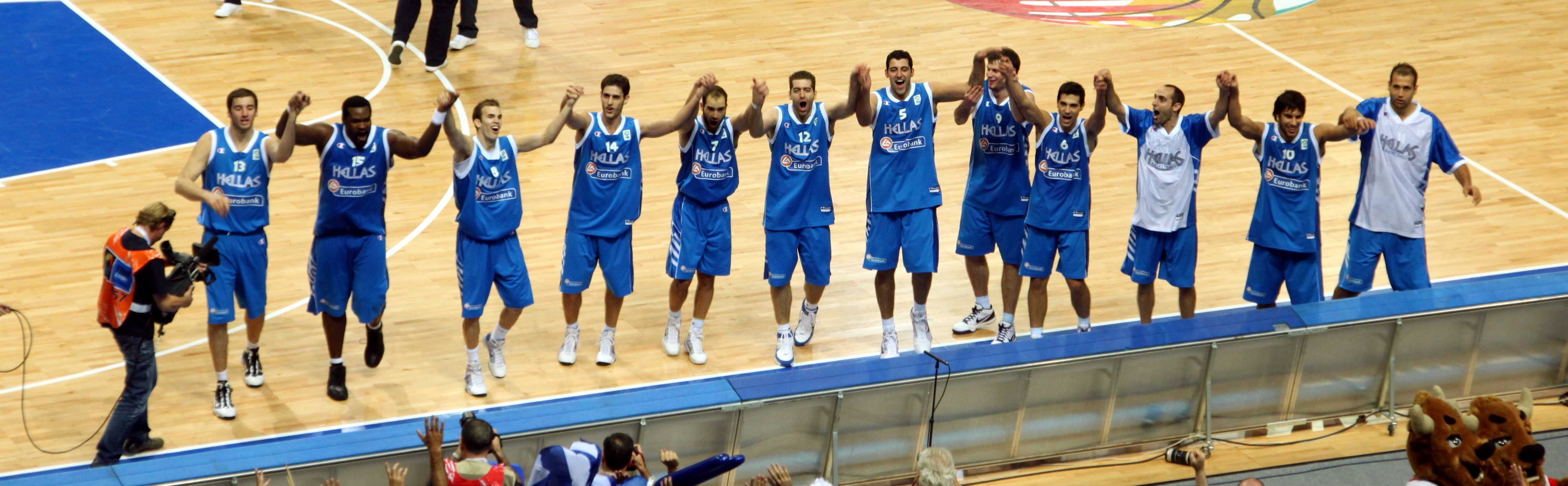 The Greek National Team of Basketball... Greece edged Turkey in a EuroBasket Quarter-Final thriller. [Turkey 74-76 Greece, Eyrobasket 2009, Poland] Turkey 76-74 Greece